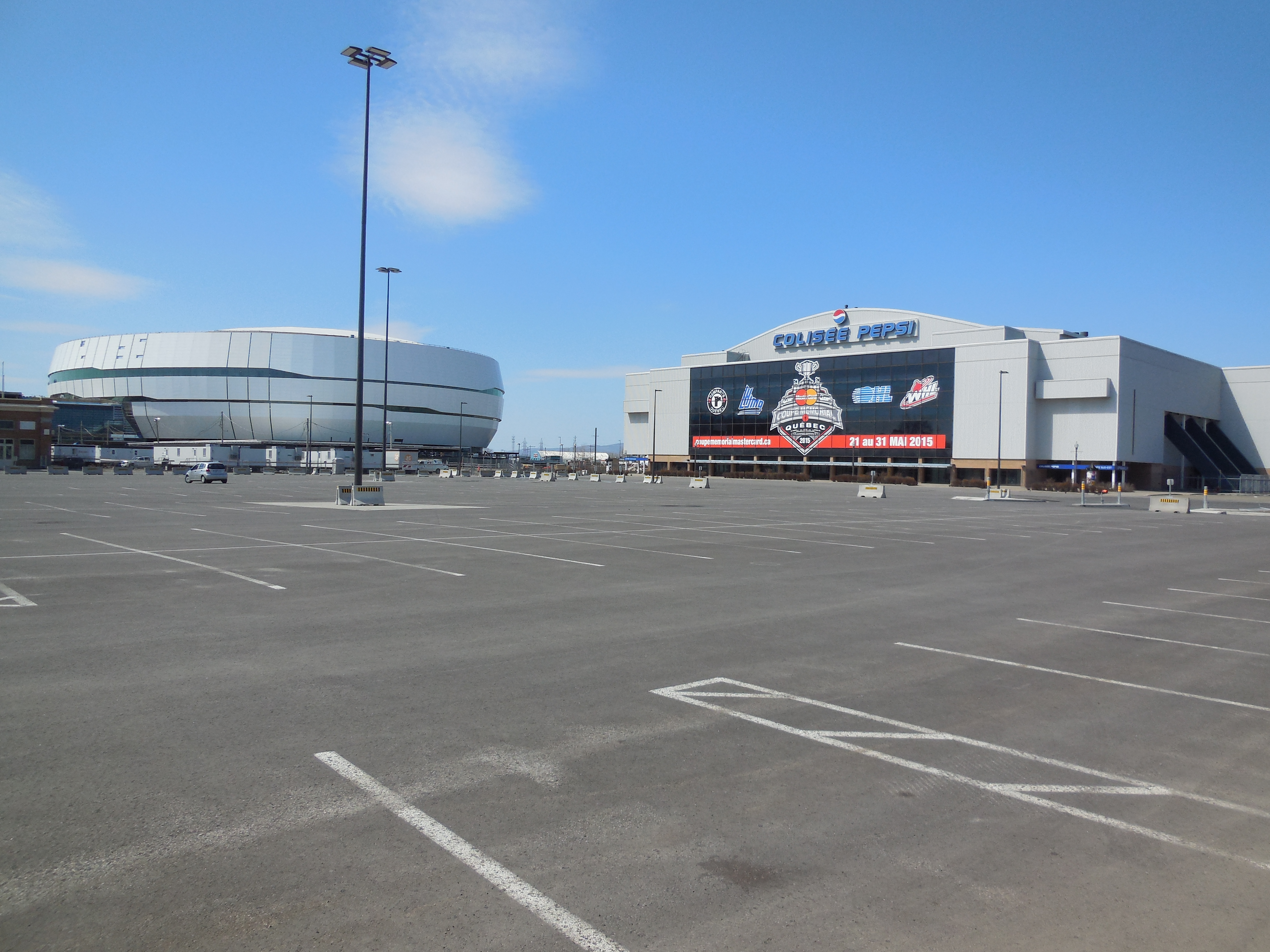 Colisée Pepsi and Centre Videotron in april 2015 in Quebec City